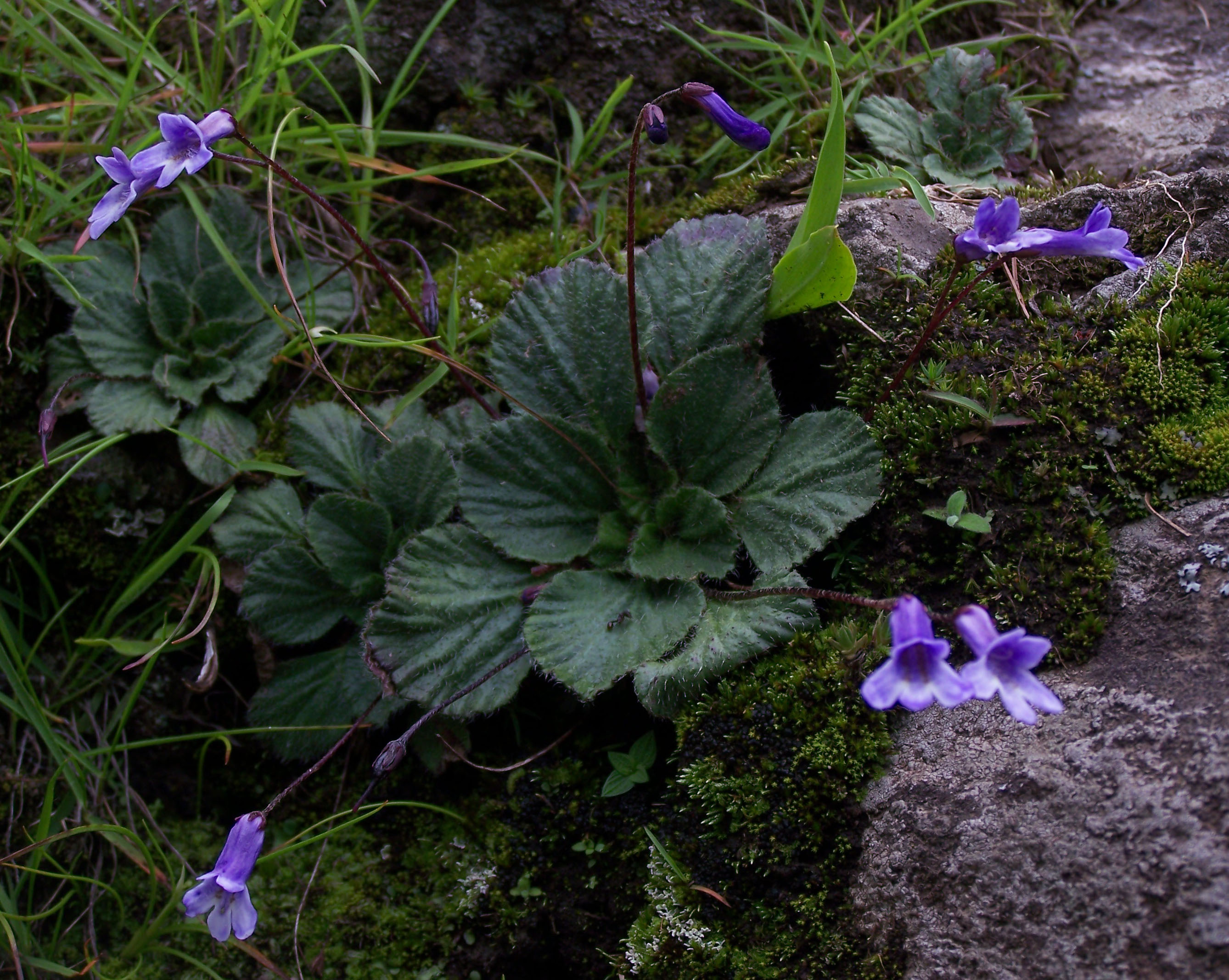 Corallodiscus. 3300 m, August, near Namche, Khumbu region, Nepal